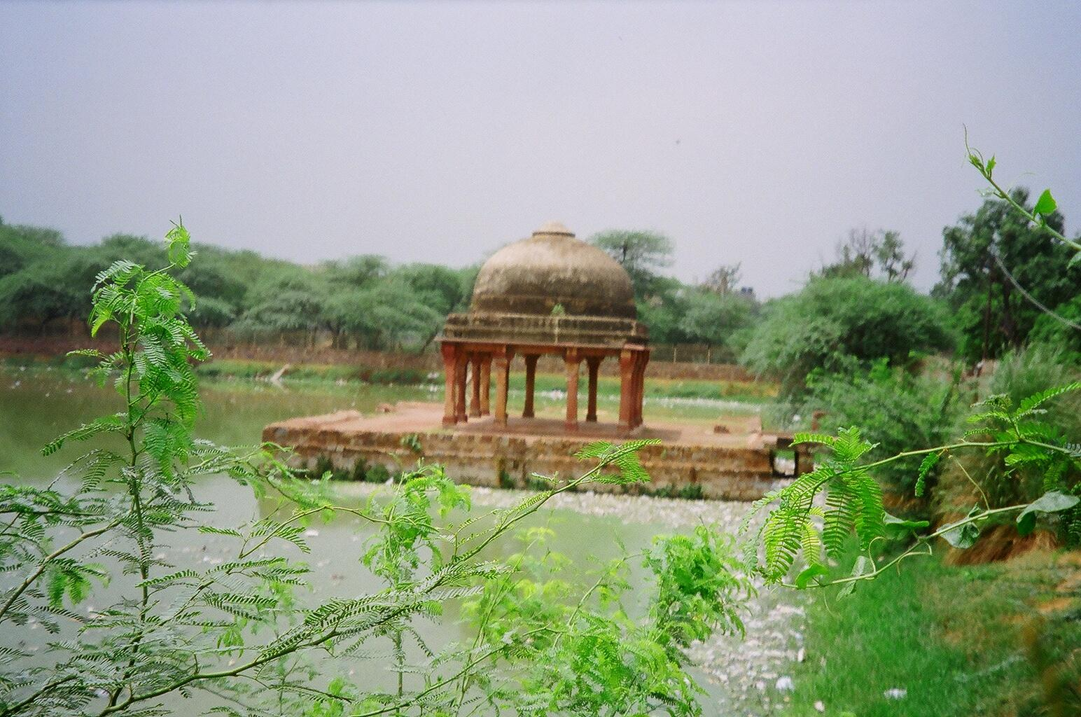 Tower at the location of Prophet's horse's hoop